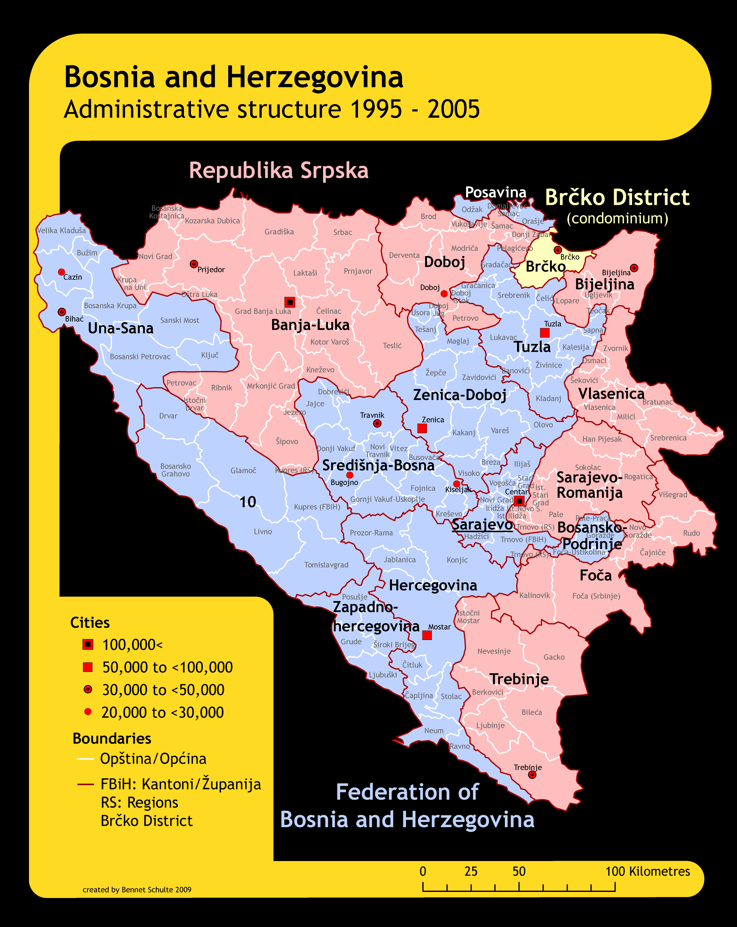 The map shows the administrative structure of the post-war Bosnia and Herzegovina in 2005